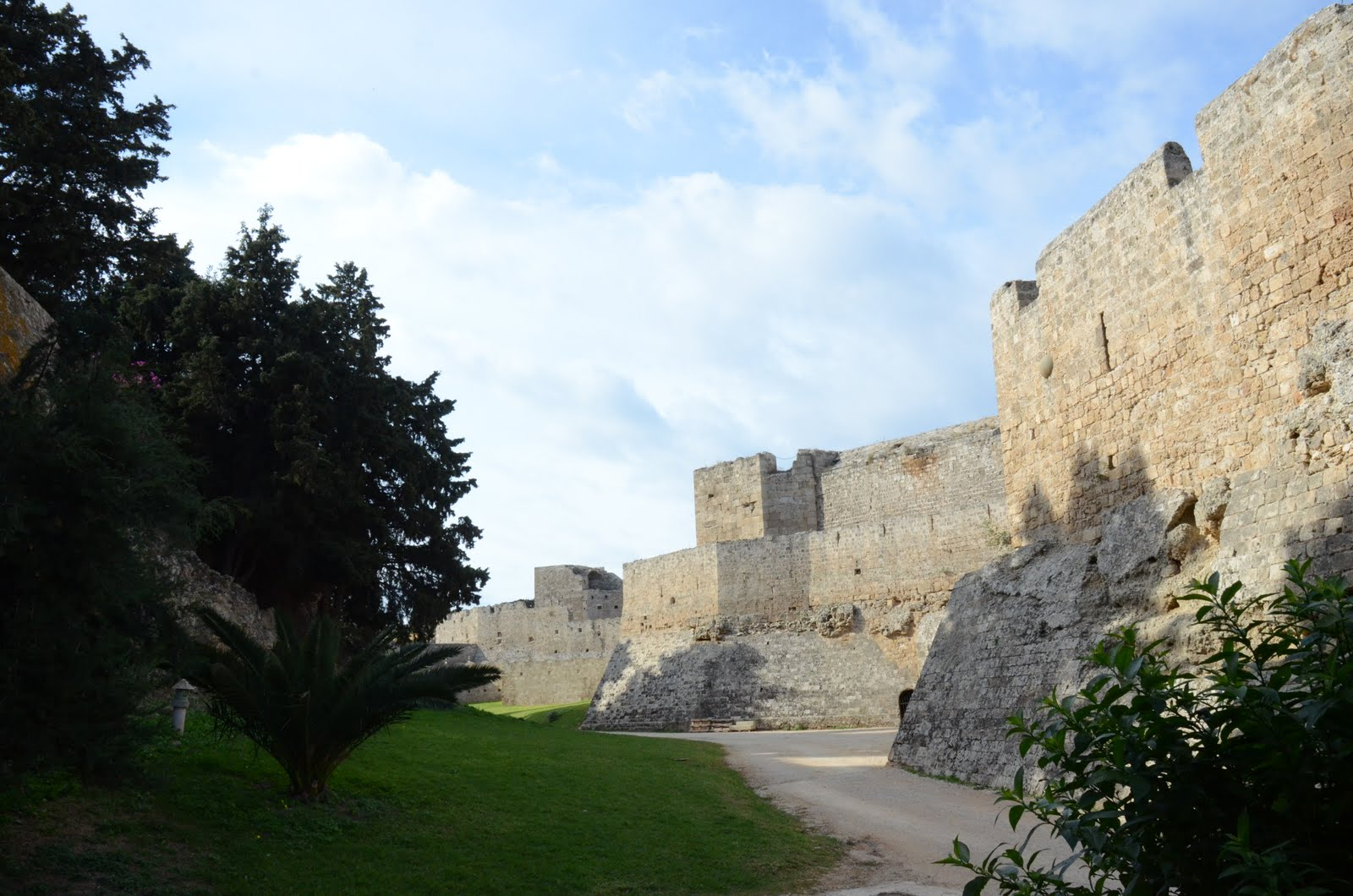 Rhodes-Wals and Bastions seen from the moat